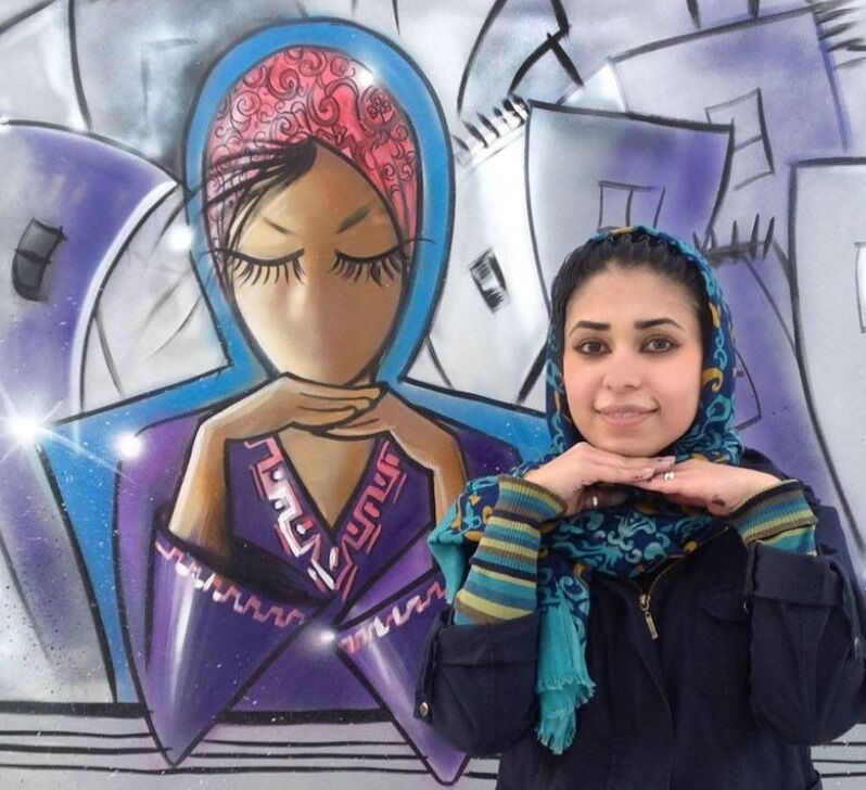 Secret Series at Kabul, Afghanistan, by Shamsia Hassani.